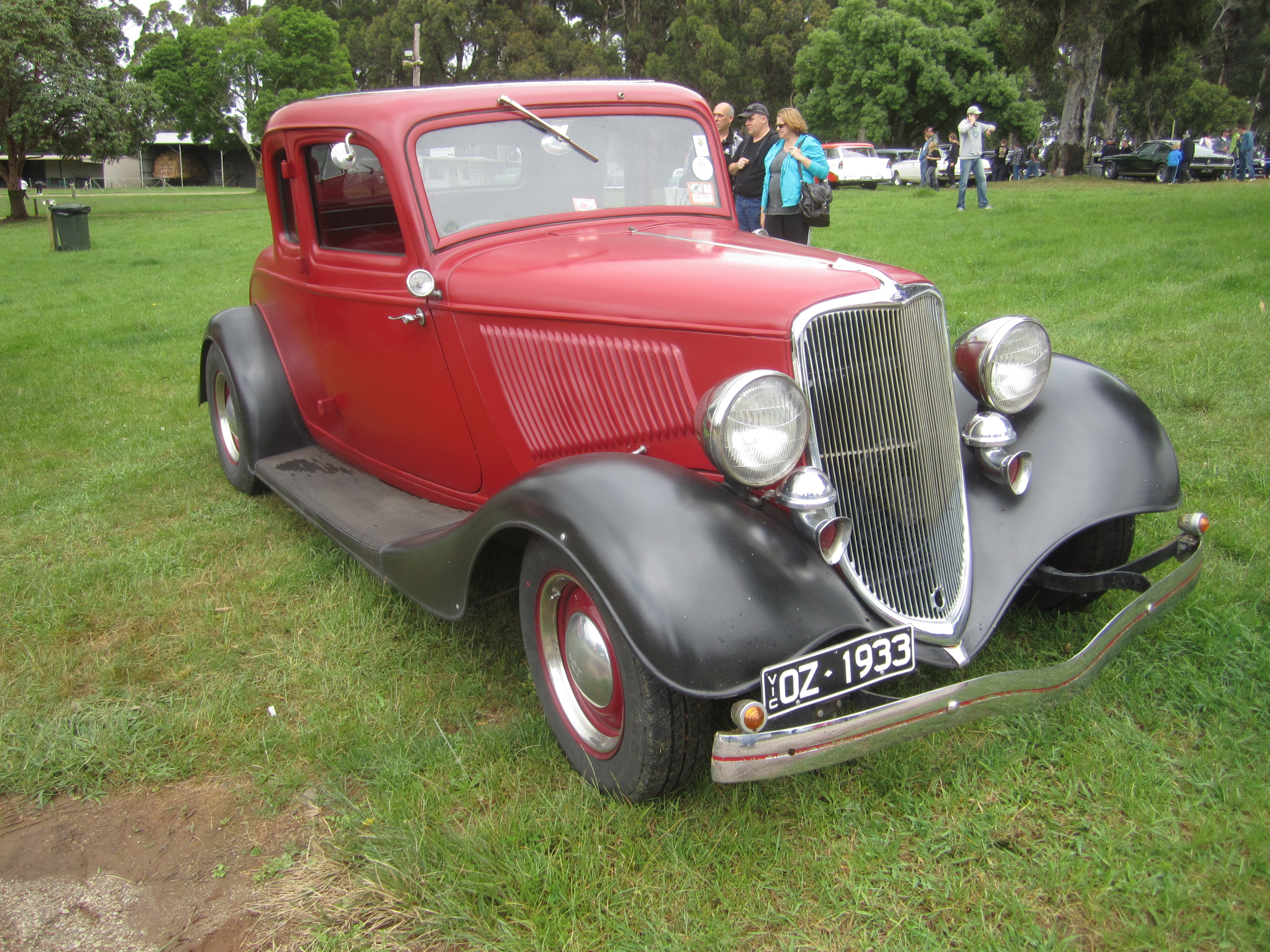 Model B built from 1932-34. longer wheelbase than 1932 and new grille. Engines; 4 cyl or 75hp flathead V8